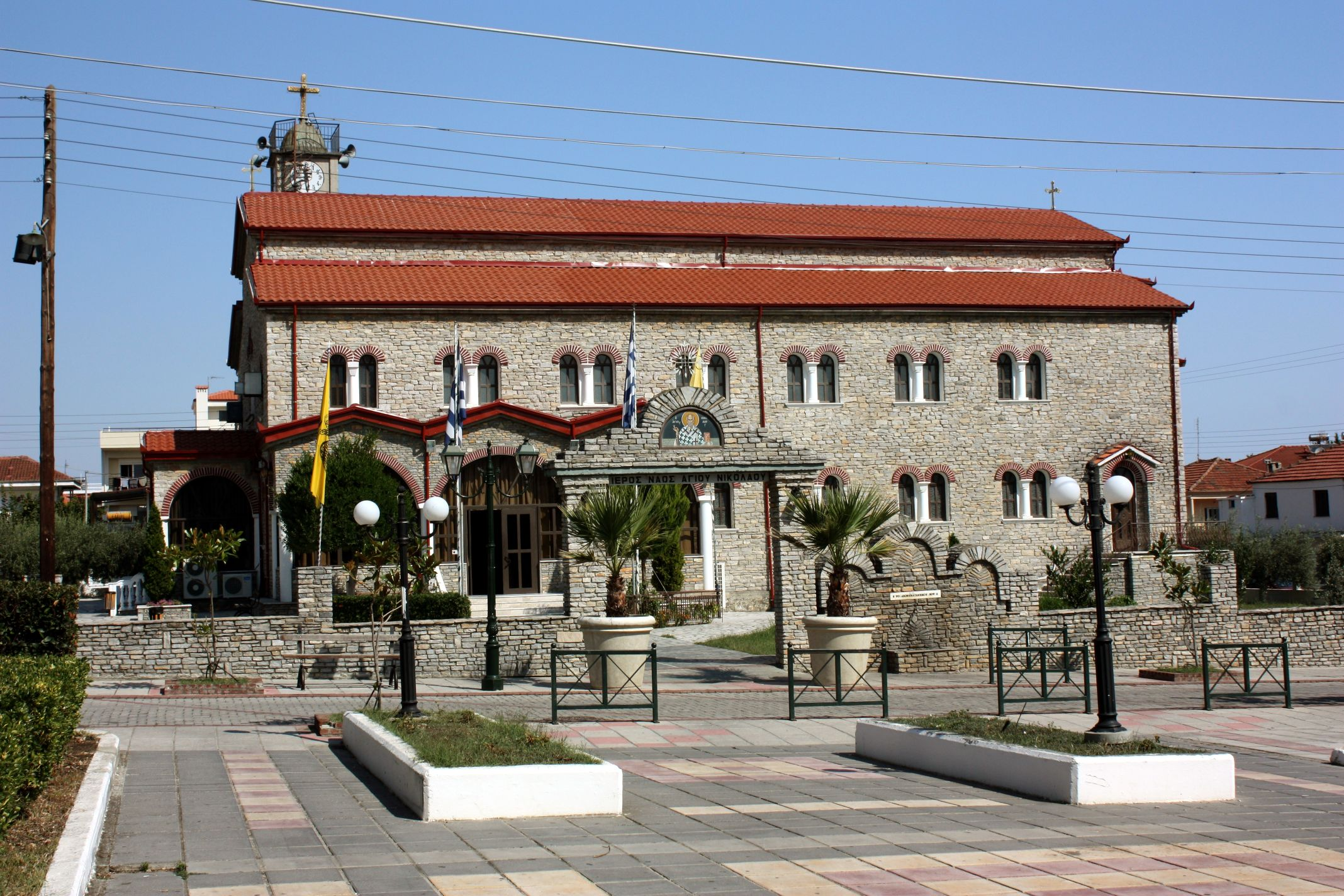 Church of Leptokaria